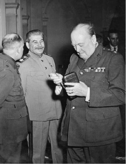 Winston Churchill takes a fresh cigar from a case as Joseph Stalin looks on, smiling, during a break in the Yalta Conference.